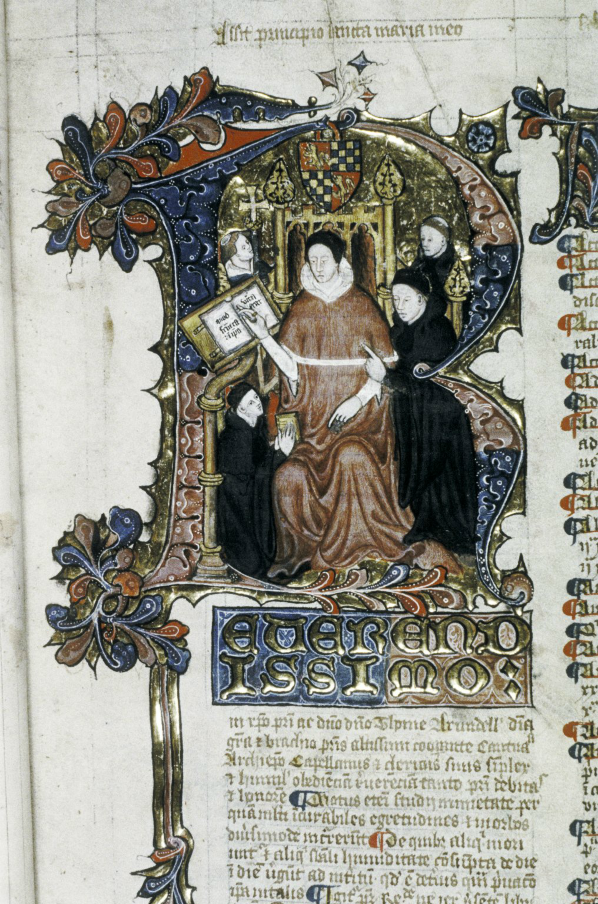 A historiated initial R featuring Thomas Arundel, archbishop of Canterbury, in his throne beneath his coat of arms, presenting a book.